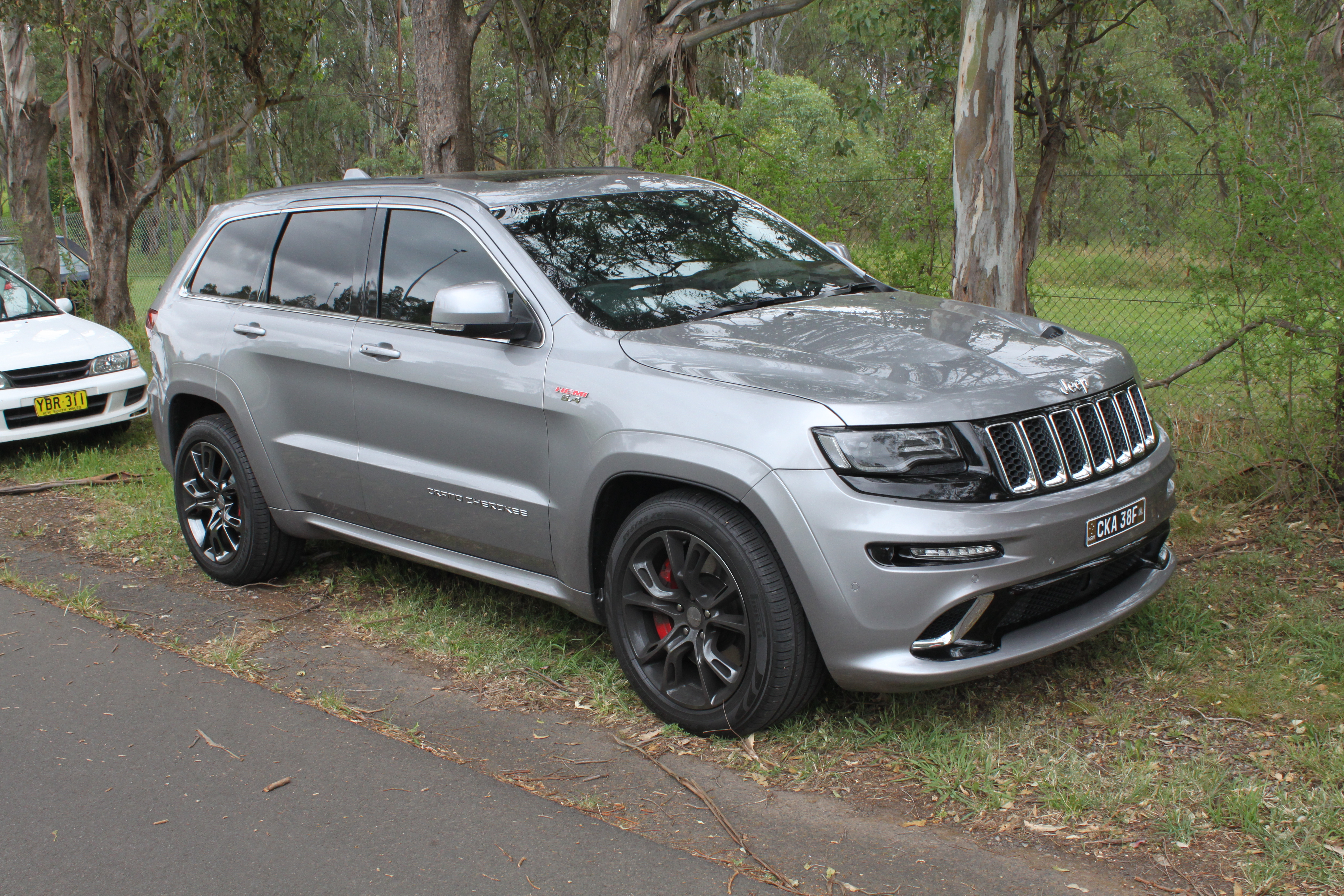 Jeep Grand Cherokee WK SRT-8